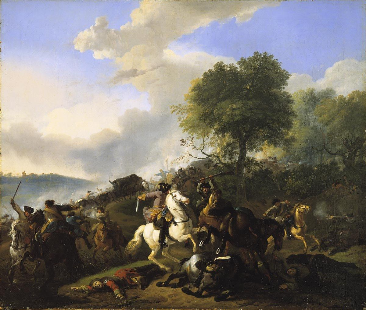 Pendant of Cavalry engagement, Royal Picture Gallery Mauritshuis, inv. 68